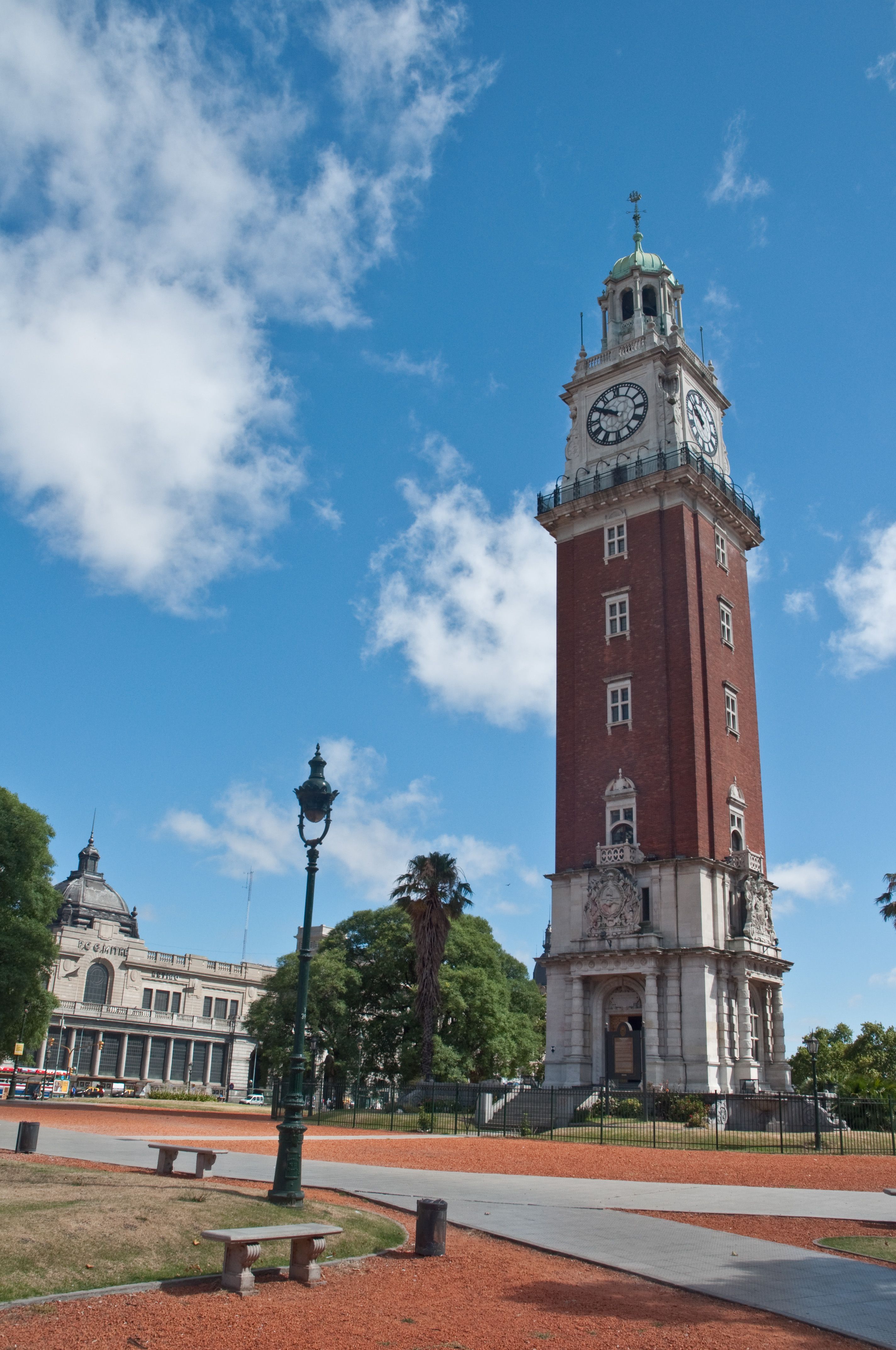 Originally Torre de los Ingleses and a gift from Britain to Argentina at the time of its centennial in 1910. Renamed after the Falklands war.